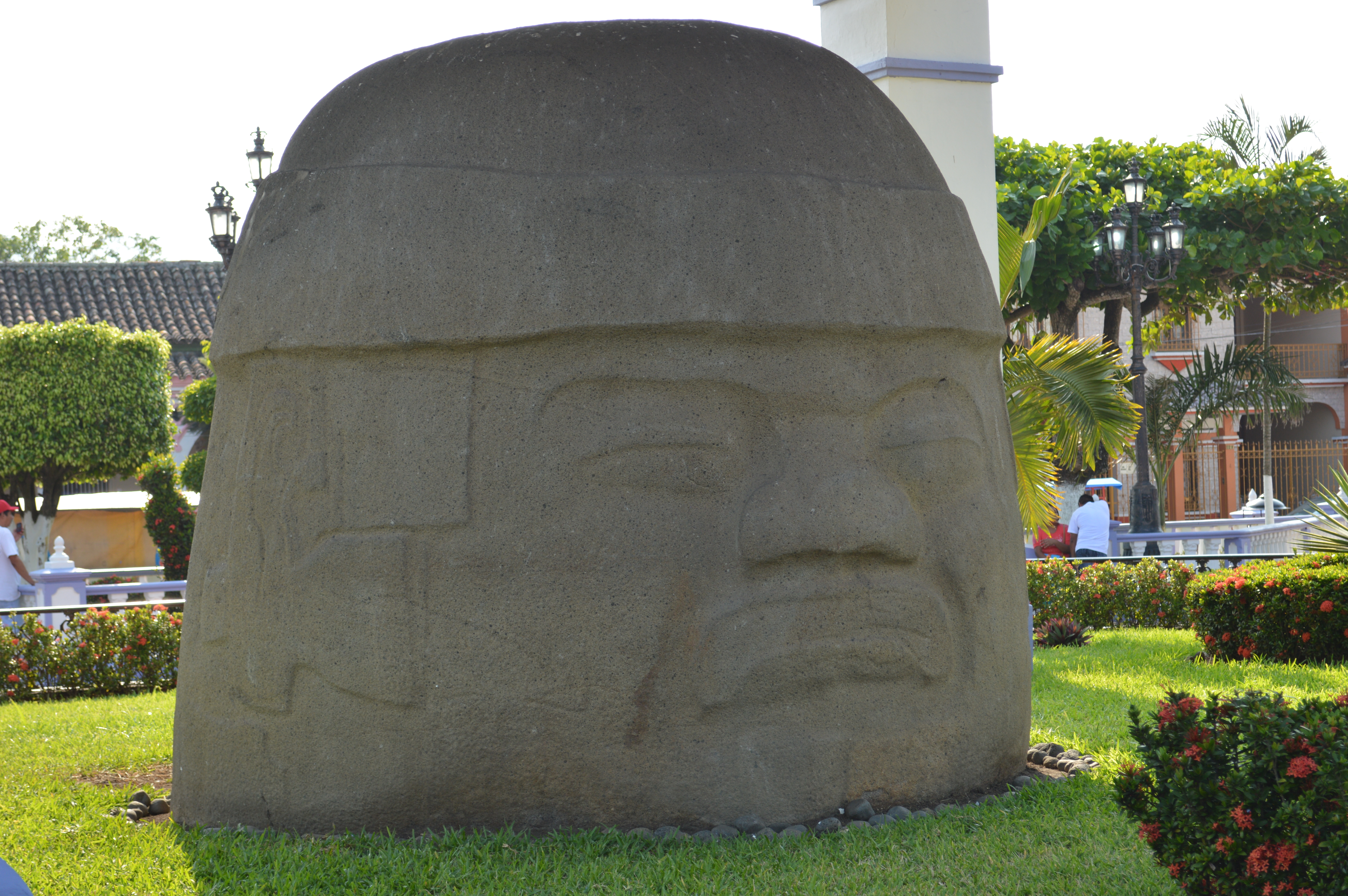 The La Cobata Head in the main plaza of Santiago Tuxtla, Veracruz